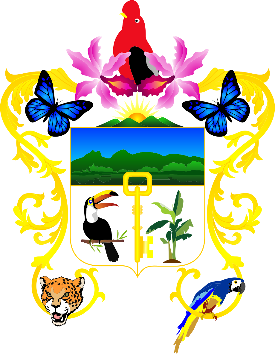 Rupa Rupa District - Province of Leoncio Prado - Huanuco region